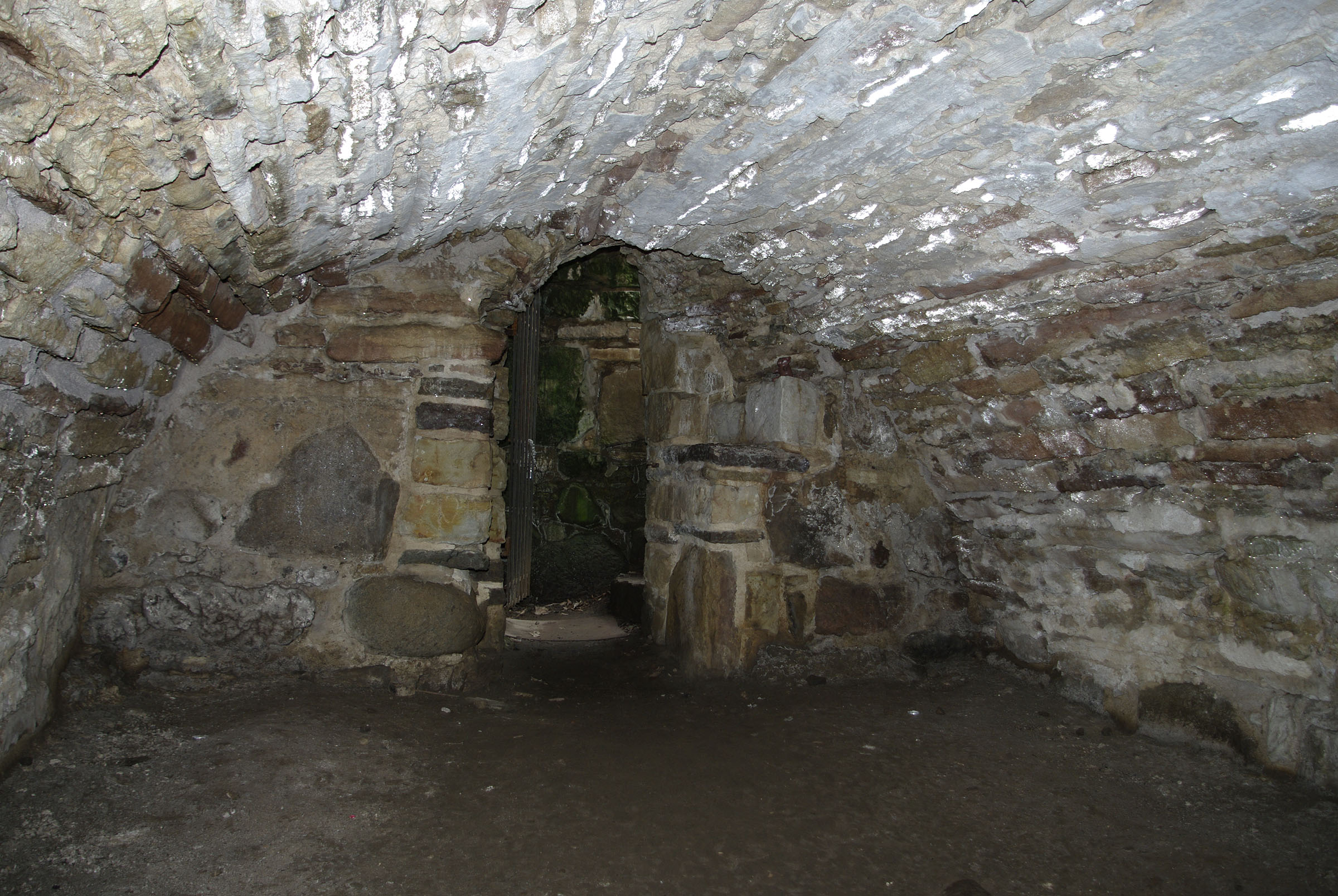 The cellar to the monastery of Gudhem in Sweden.